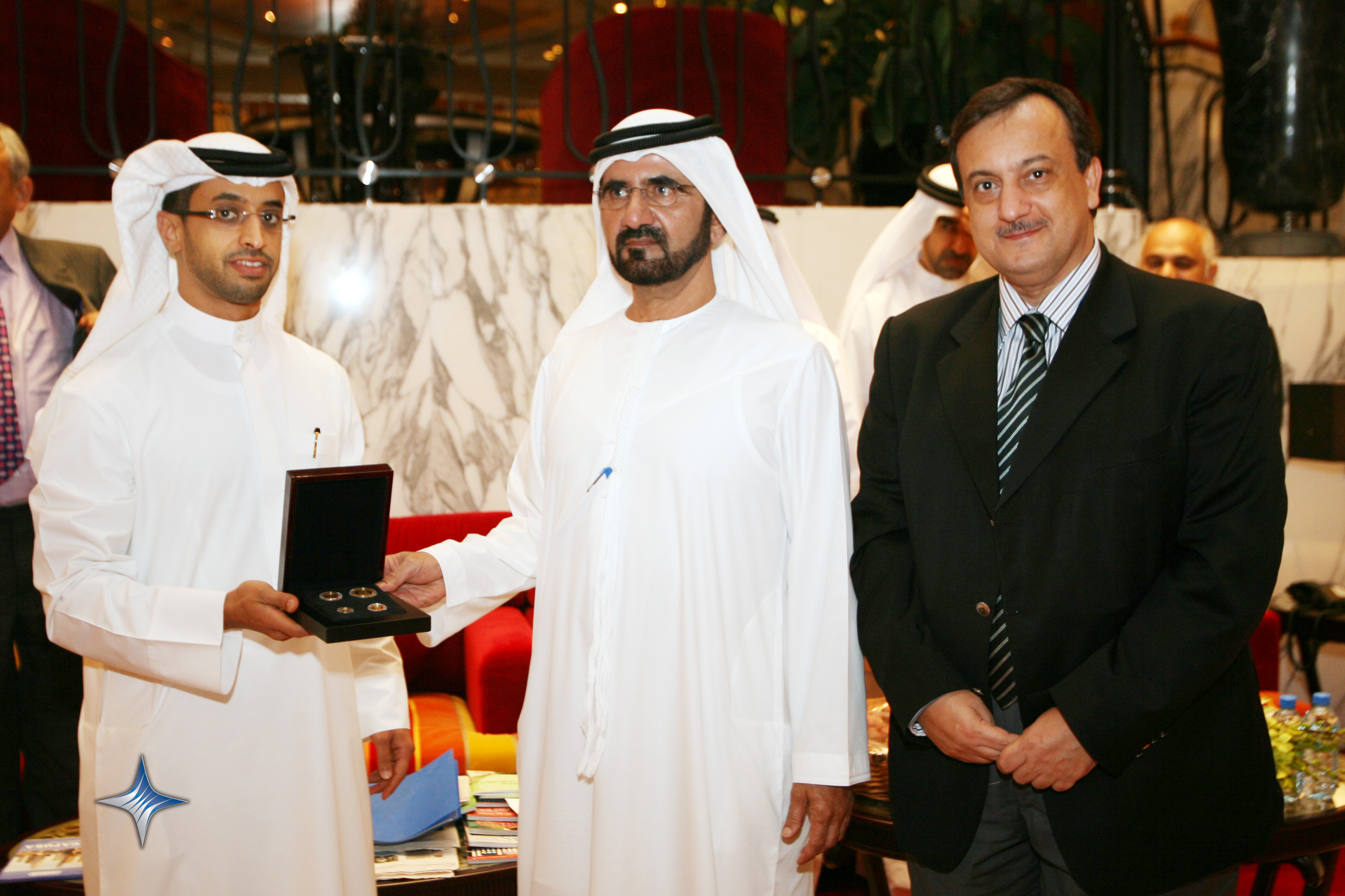 Ahmed Sultan Bin Sulayem addresses delegates at 7th City of Gold Conference